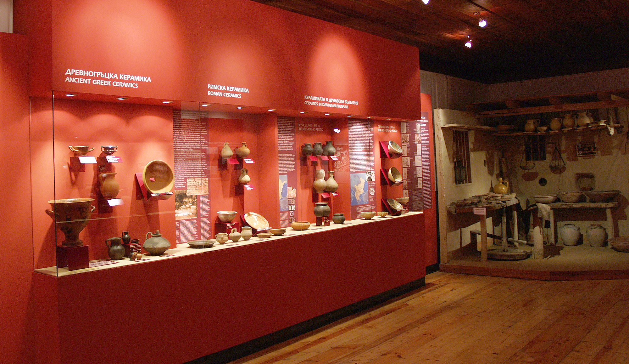 Ceramics history in Troyan Museum of traditional crafts and applied arts